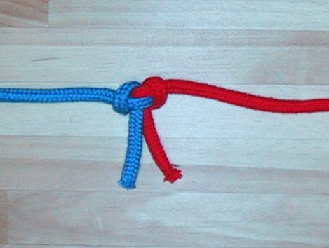 Picture of an Alpine Butterfly Bend knotSee Image:Alpine Butterfly Bend HowTo.jpg for the steps needed to create this knot.